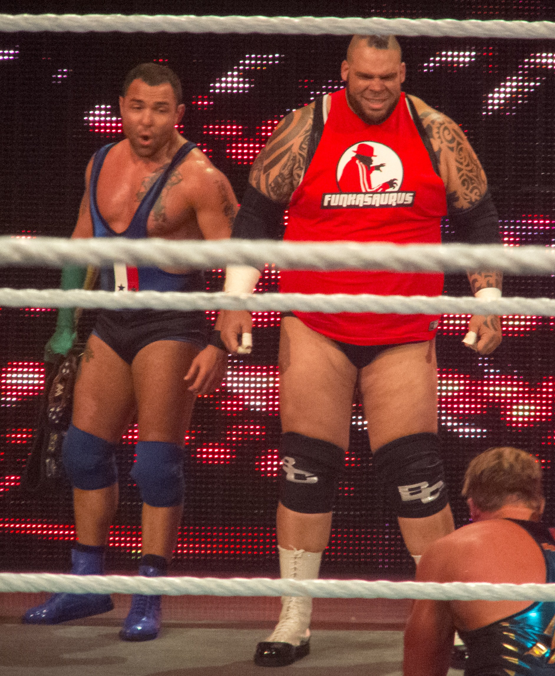 WWE United States Championship match